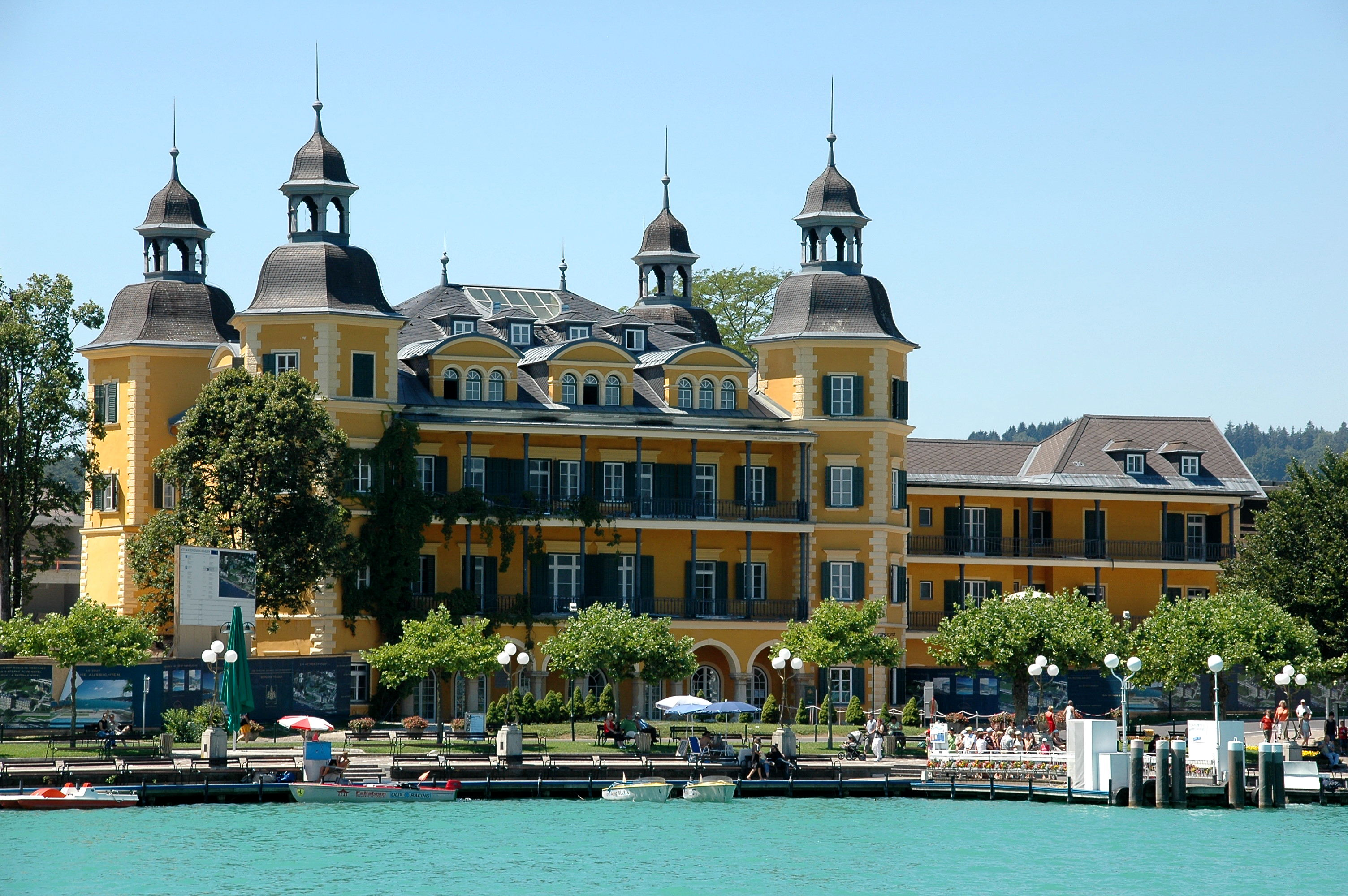 Castle Velden, market town Velden am Wörthersee, district Villach Land, Carinthia / Austria / EU